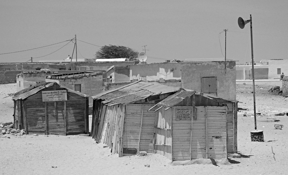 Wooden mosque in Nouadhibou, Mauritania